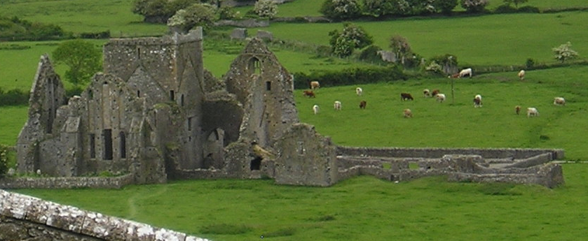 Hoare Abbey as viewed from the Rock of Cashel. Taken by me or my wife on 24 May 2007.